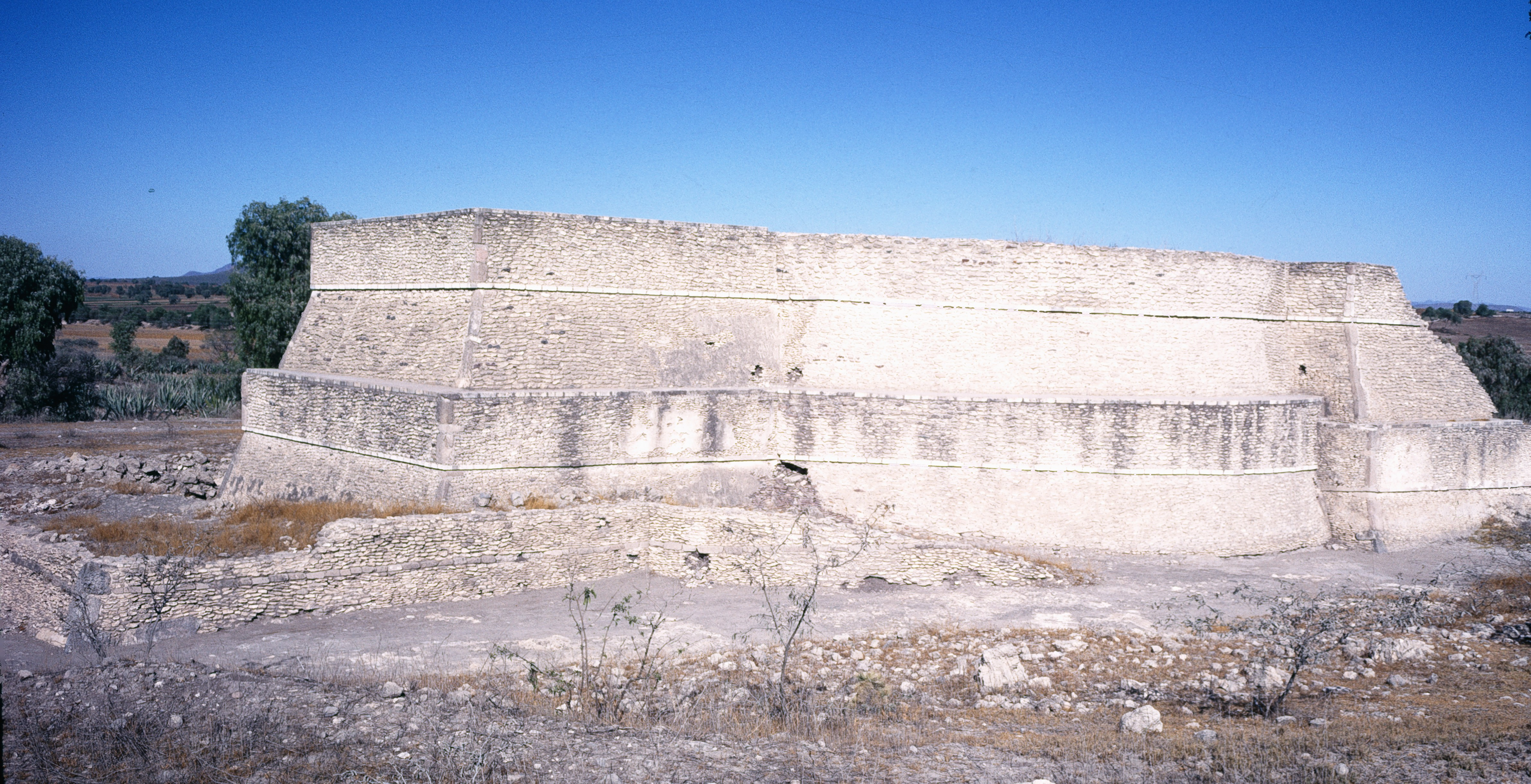 Tula, Hidalgo, Mexico; Pyramid El Corral